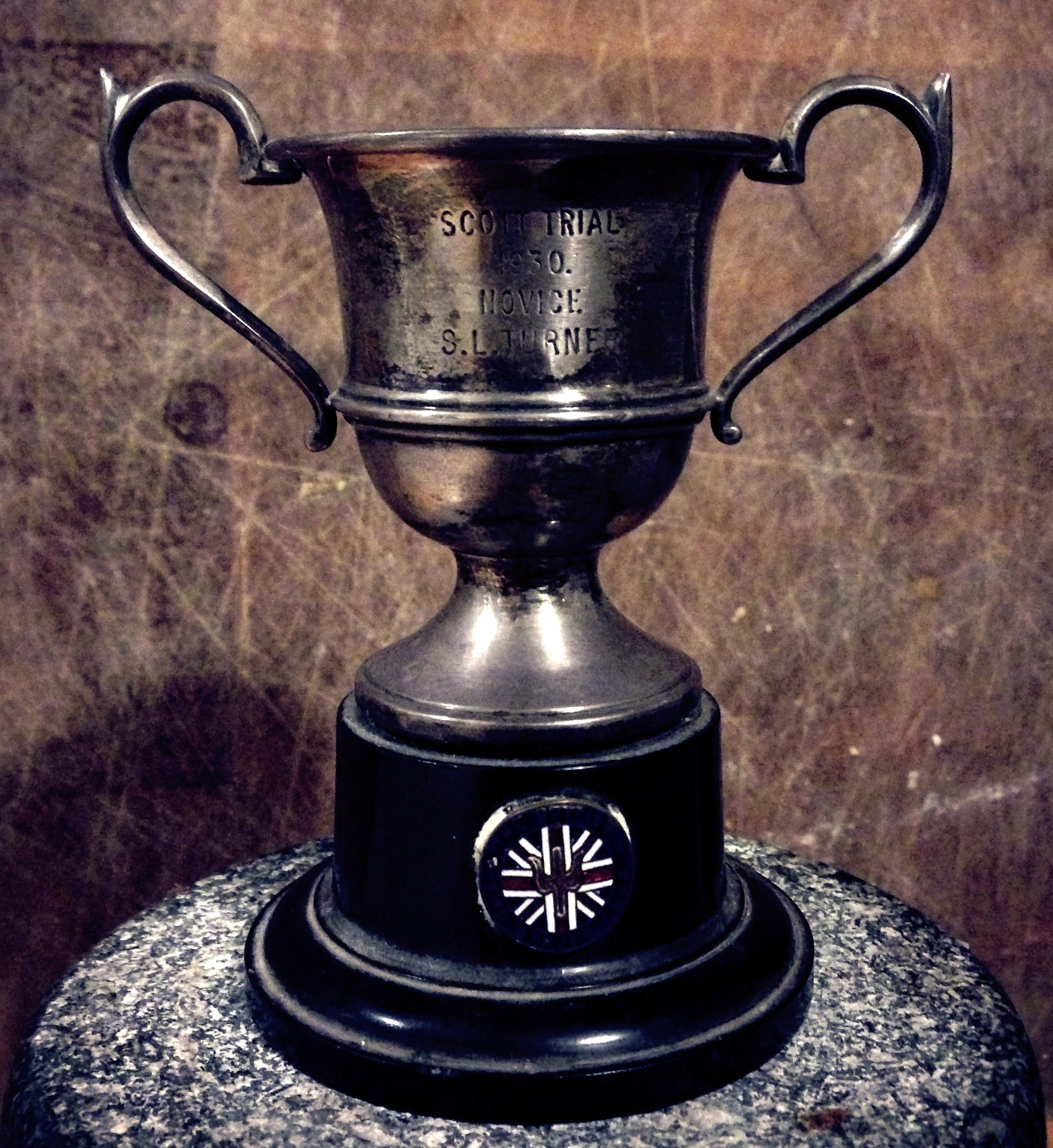 A cup won in the Novice category of the Scott Trial by Sydney Lewis Turner in 1930.